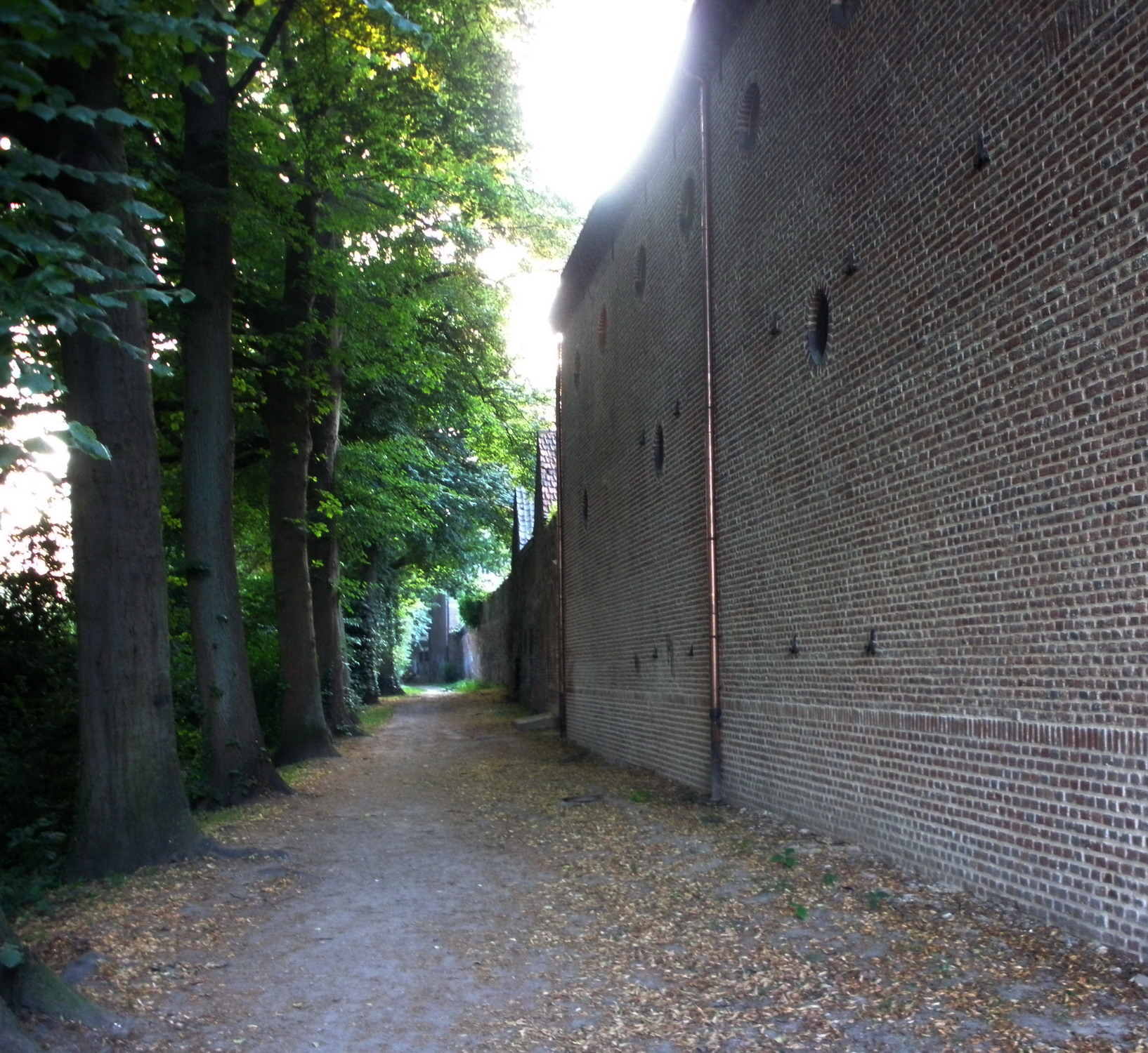 Maaseik, Belgium. View of Walstraat with part of former Franciscan Monastery, now part of John Selbach Museum.